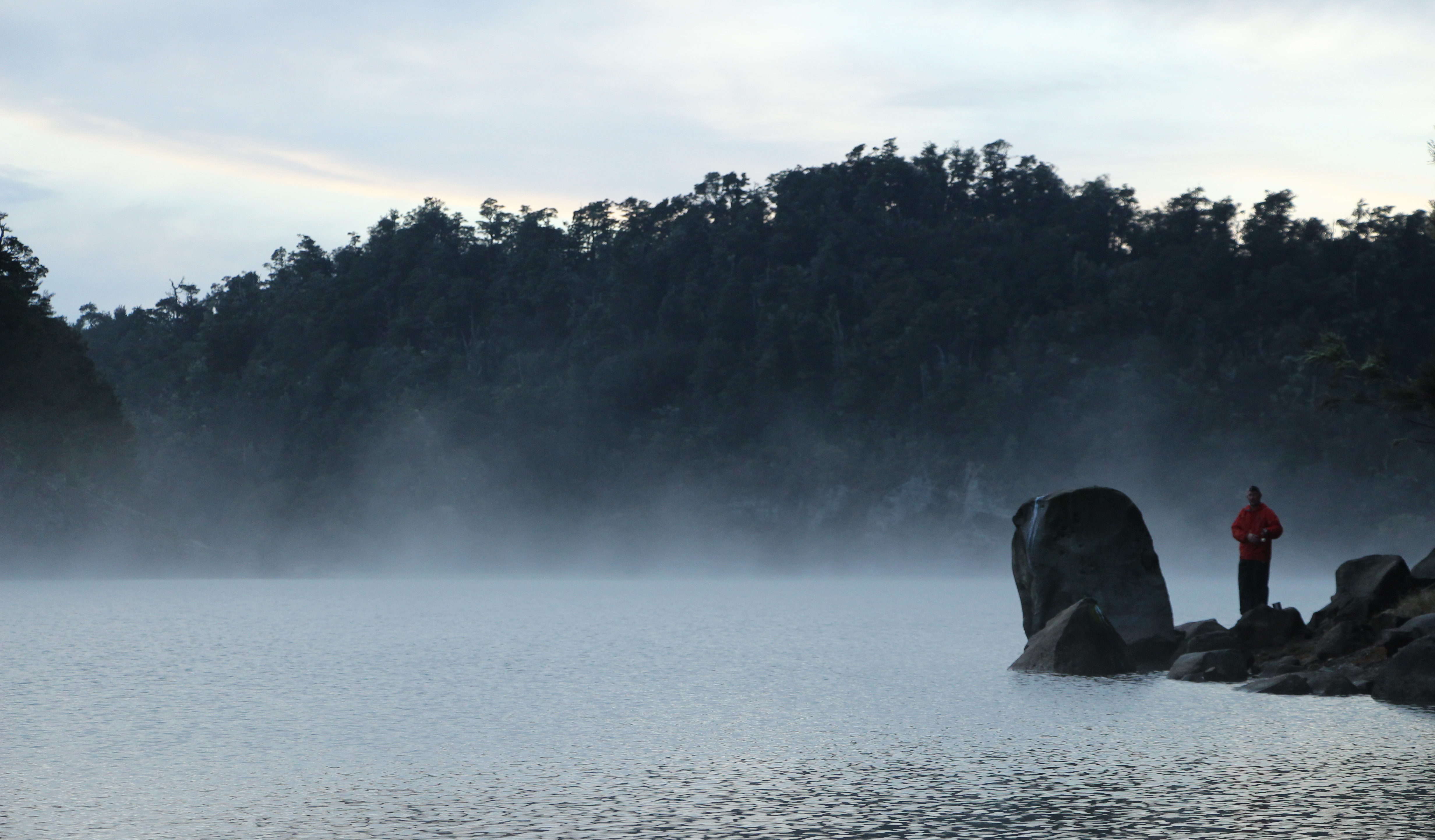 Great Walk Lake Waikaremoana, New Zealand